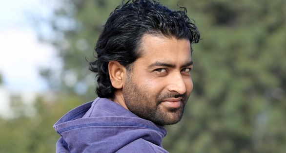 Shushank Mainali profile photo